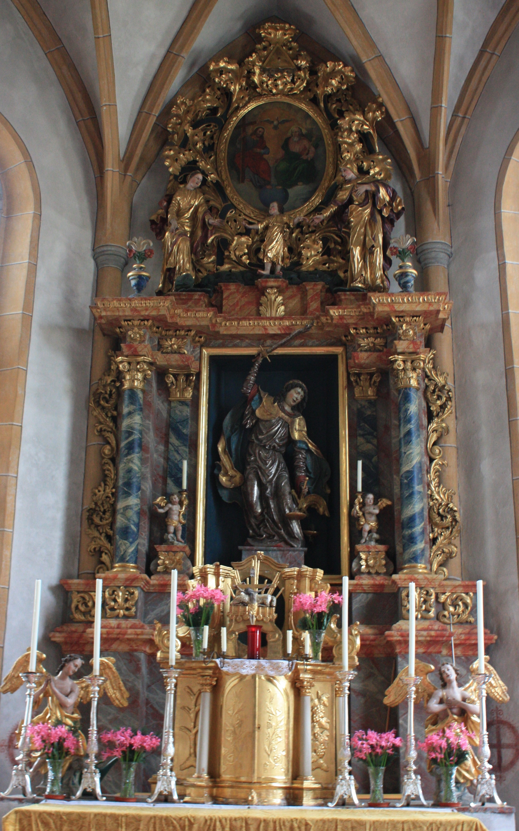 Parish church Saint Michael - Main altar Locality: Sankt Michael im Lavanttal Community:Wolfsberg